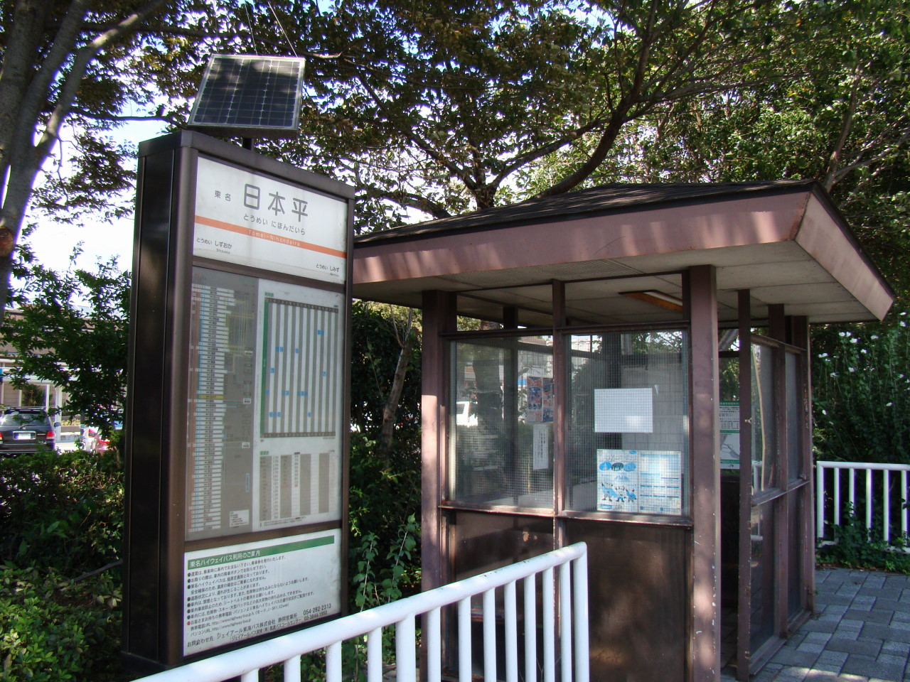 Tomei Expressway Nihondaira Bus Stop (bound for Tokyo) at the Nihondaira Parking Area